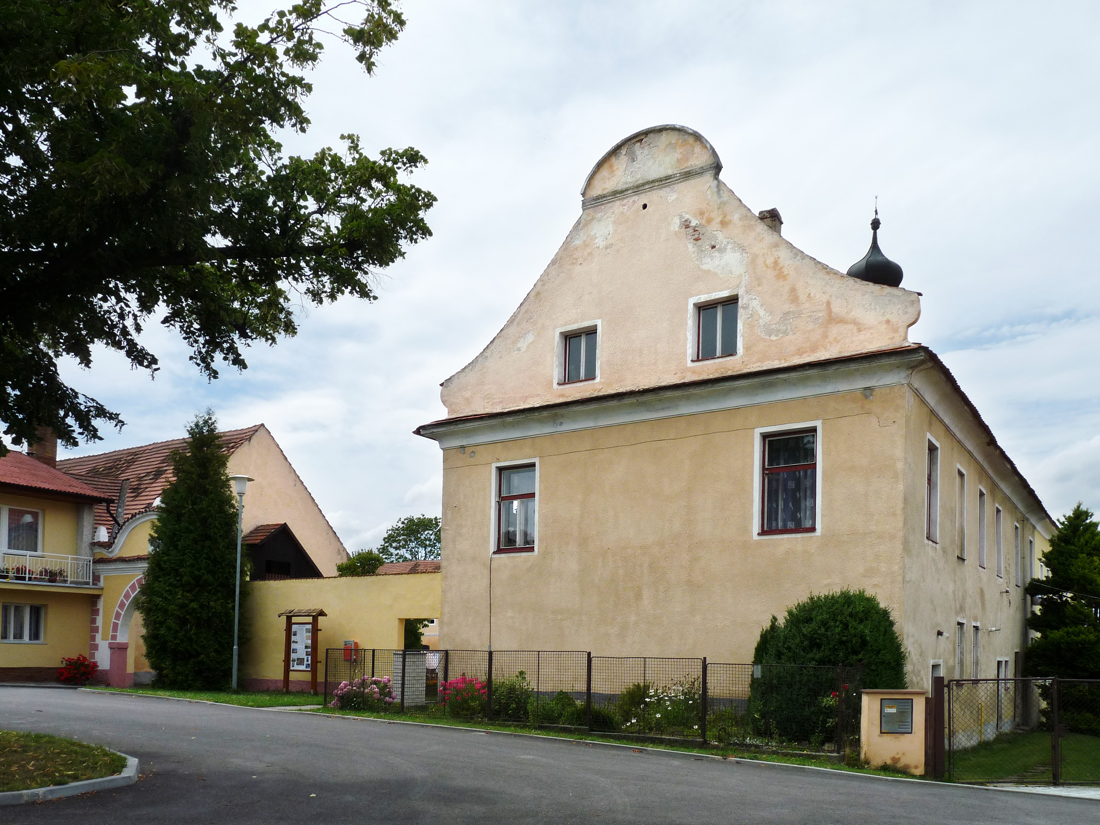 Former castle in the village of Doubravice, České Budějovice District, Czech Republic, nowadays used as a house.